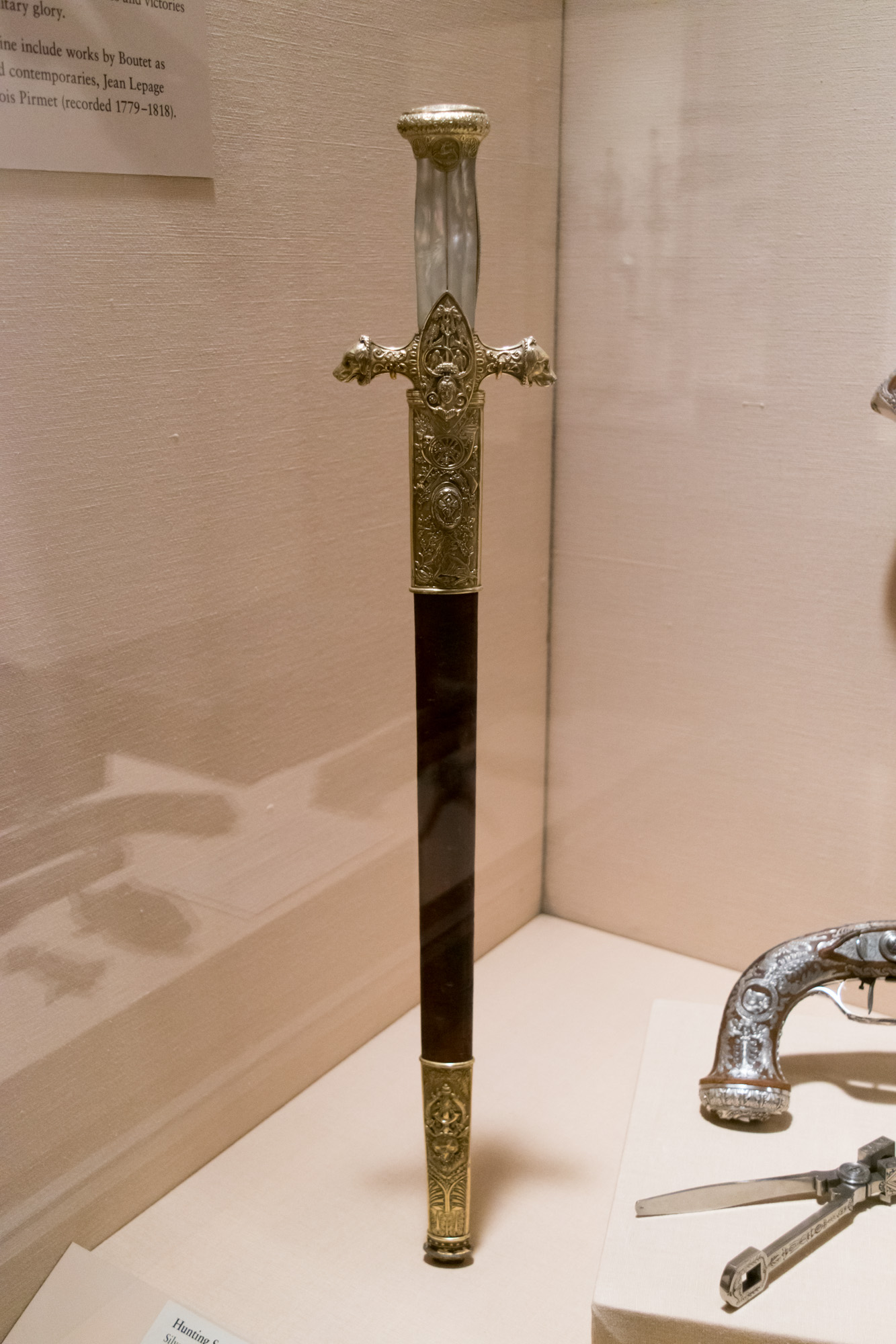 Hunting sword of Prince Camillo Borghese. Purchase, The Sulzberger Foundation, Inc. and David G. Alexander Gifts, and Bequest of Stephen V. Grancsay, by exchange, 1982.